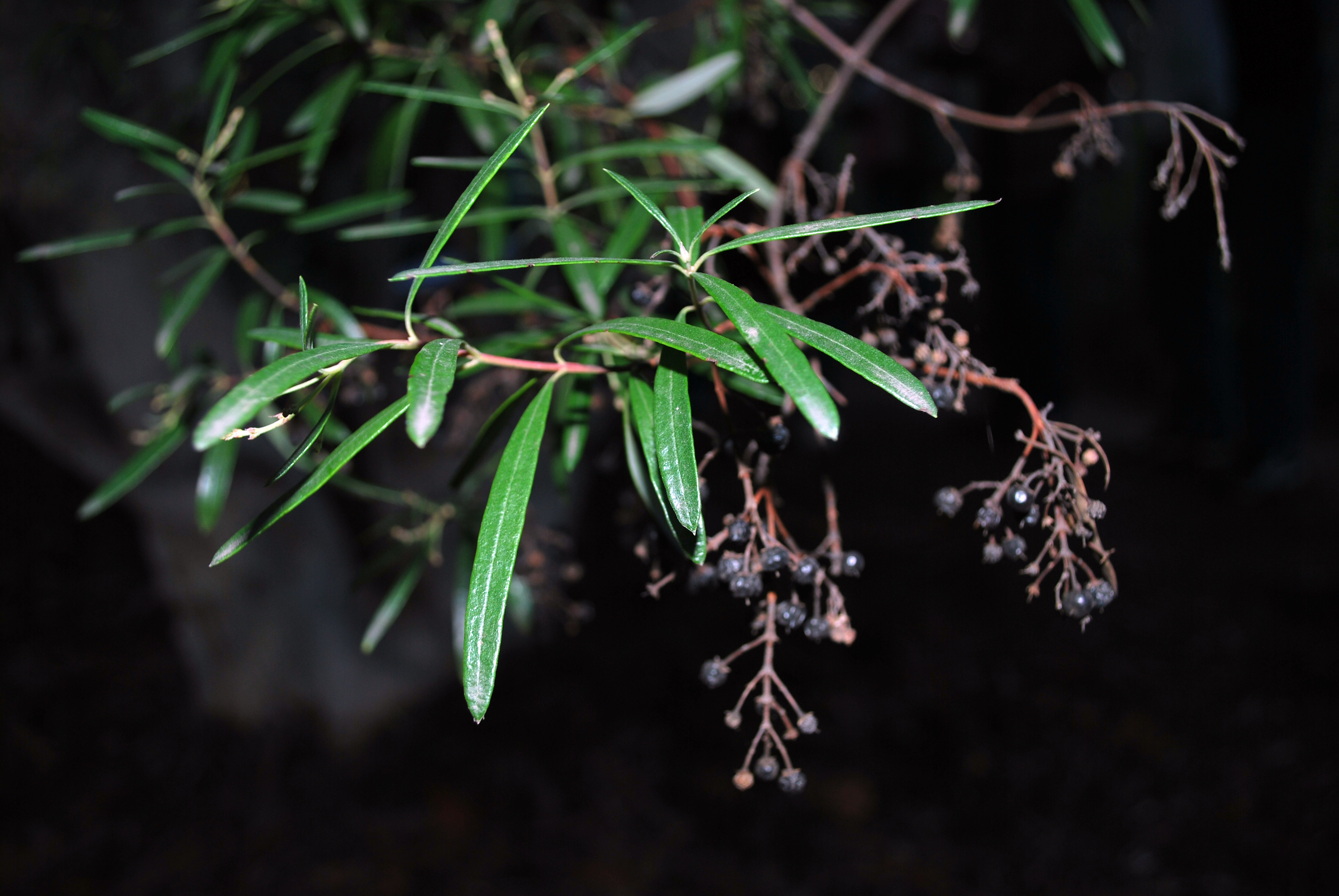 Botanical: Ornithostaphylos oppositifolia Common: Palo Blanco Location: Rancho Santa Ana Botanical Garden Date: 2010-11-24